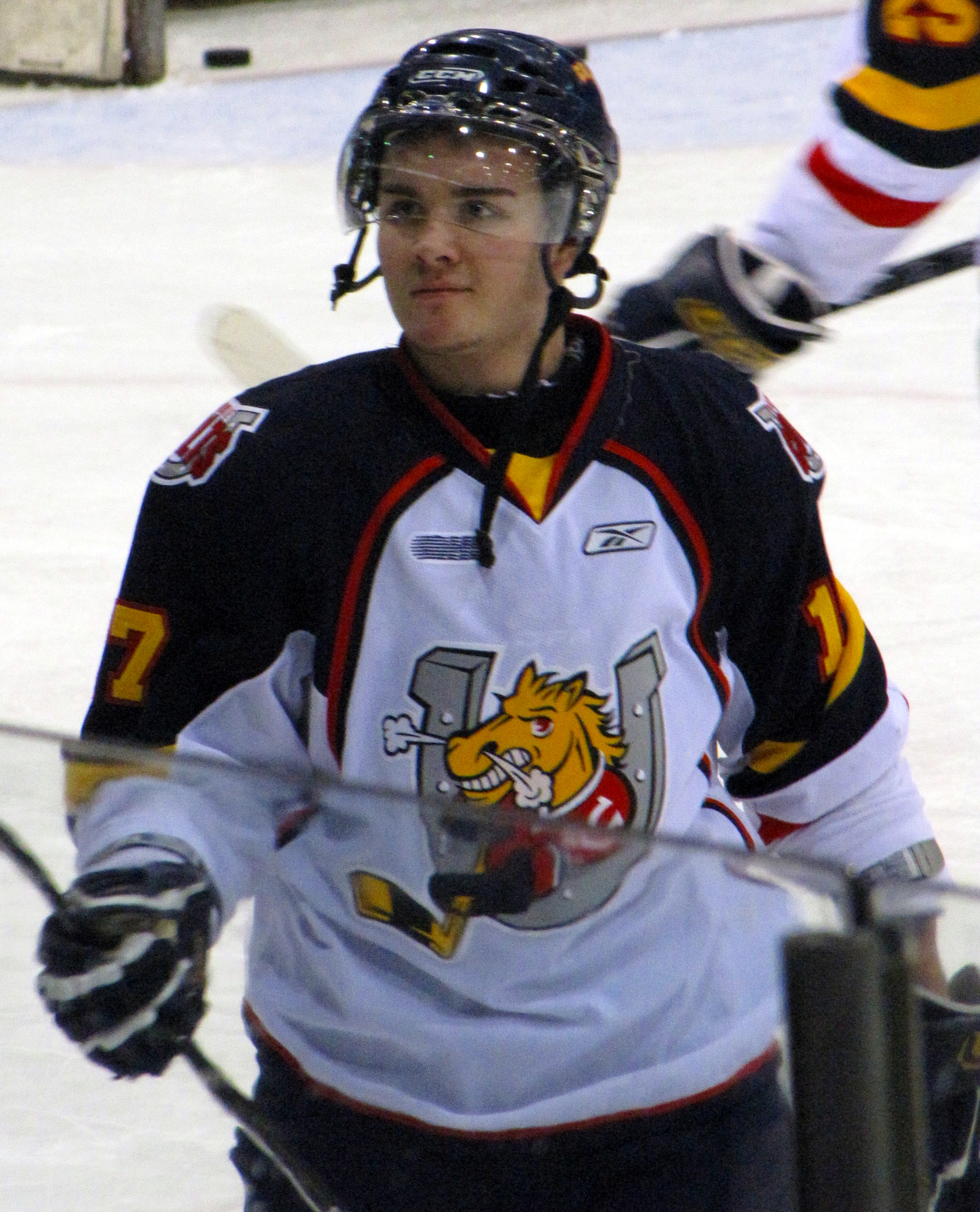 Zac Rinaldo while playing for the Barrie Colts.